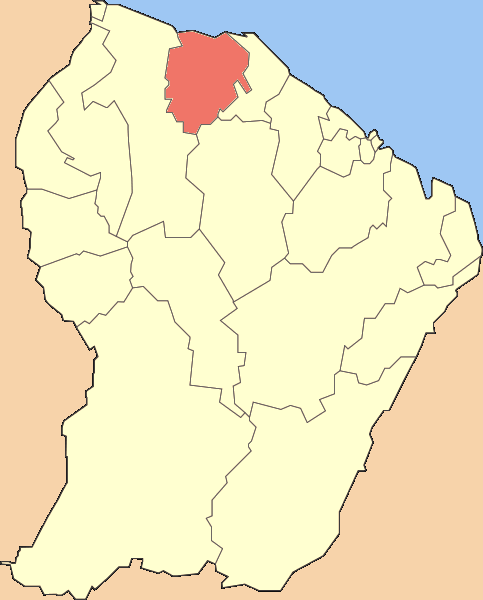 Made map myself.